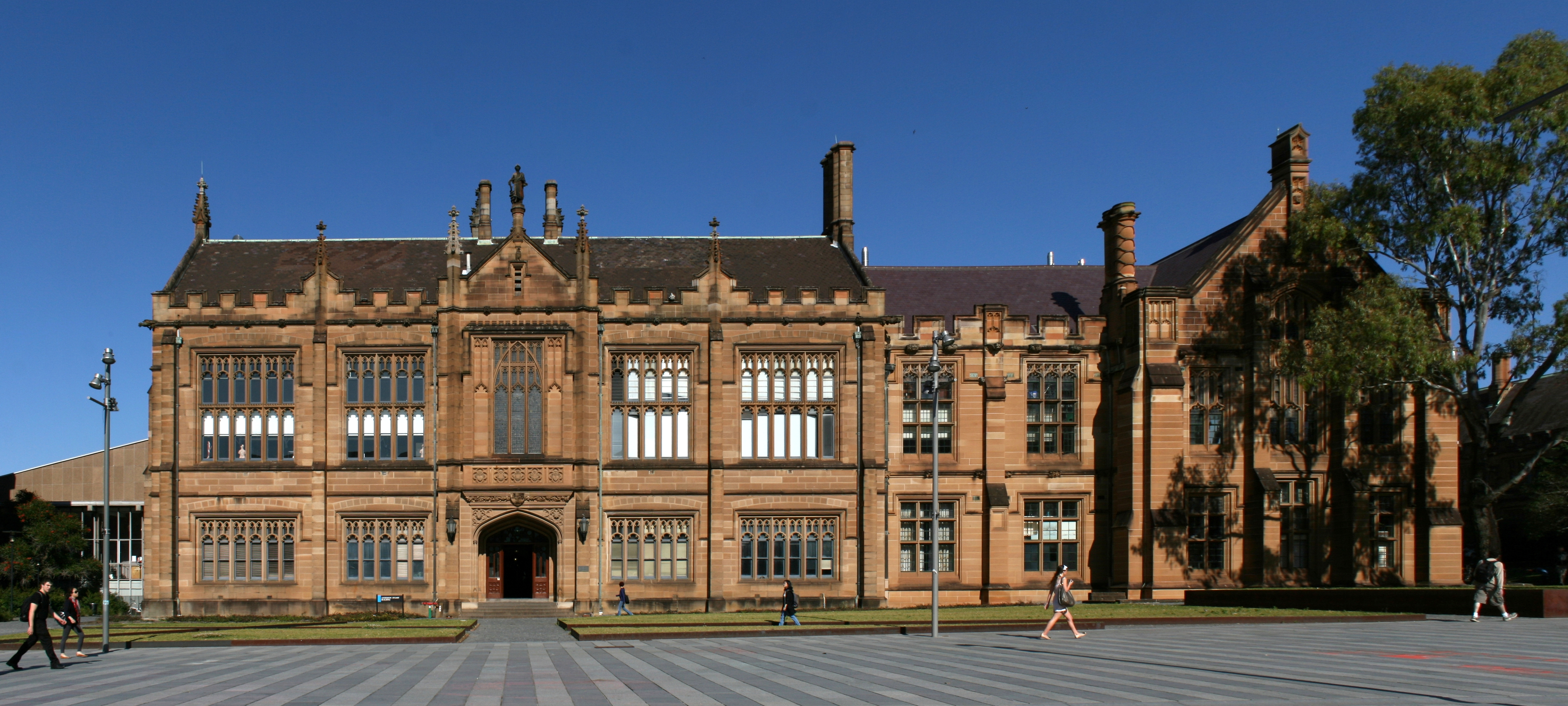 The Anderson Stuart building at The University of Sydney in morning light.